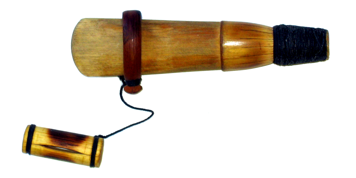 Mouthpiece from a duduk purchased in Yerevan, Armenia in 1999